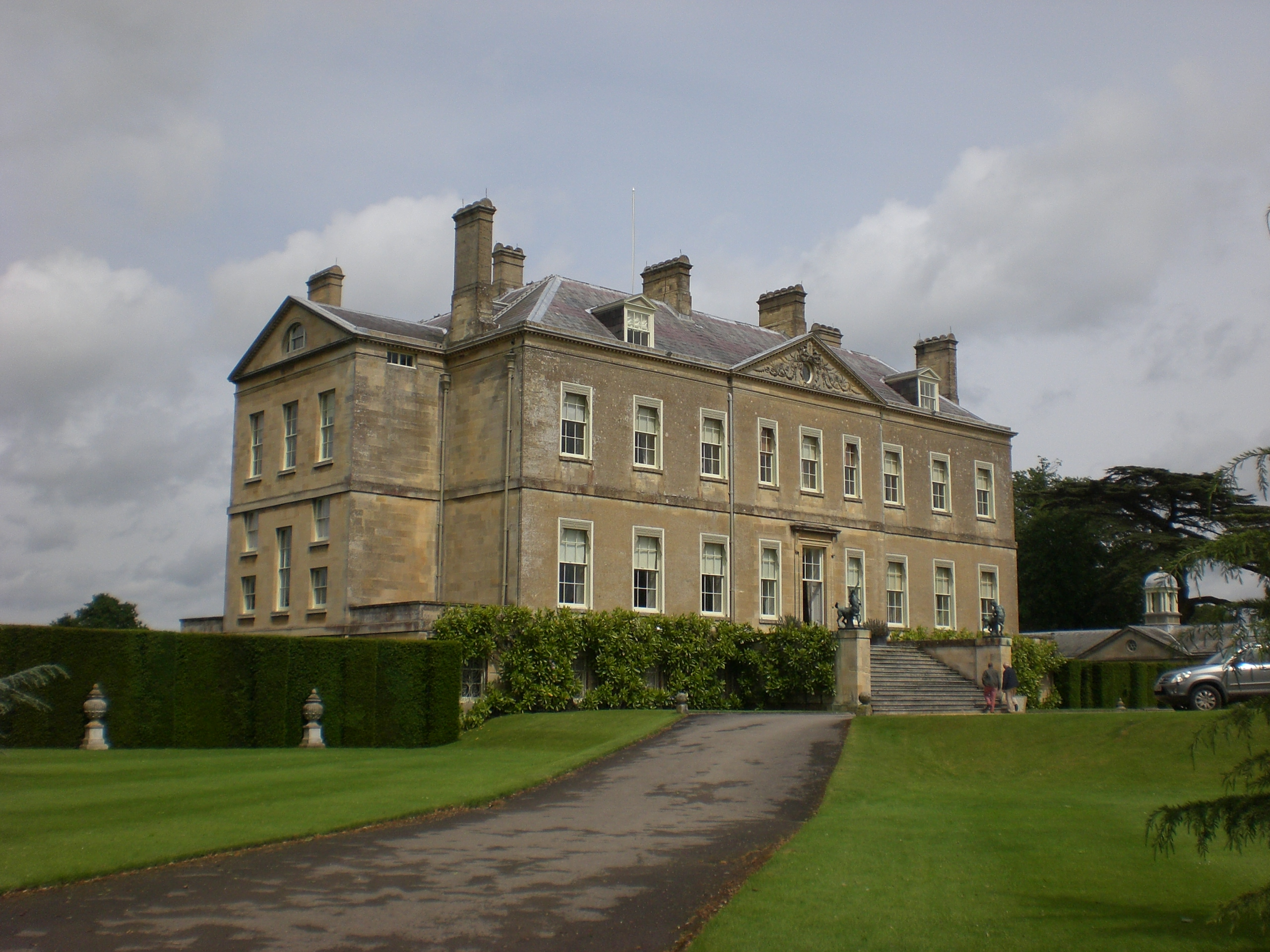 View of the house at Buscot Park, Oxfordshire, United Kingdom.